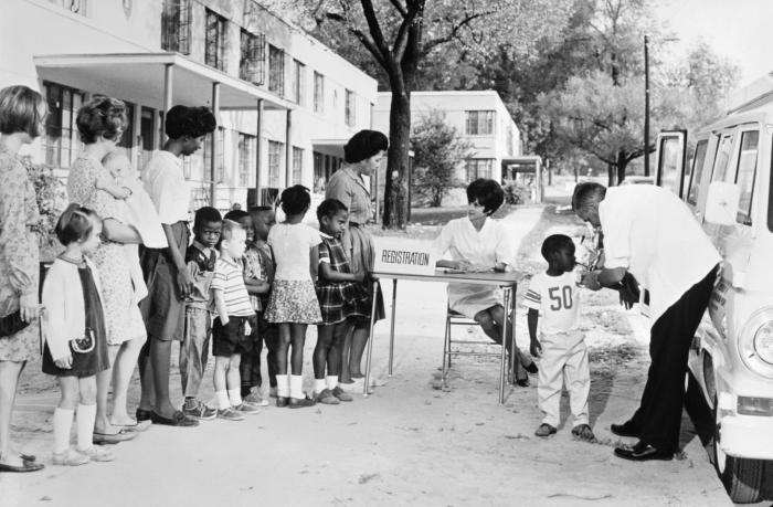 Group Immunization, USA, ?. Multiracial group of women and children in a housing project mobile clinic waiting for and receiving vaccinations. Scene contains a doctor and a nurse.